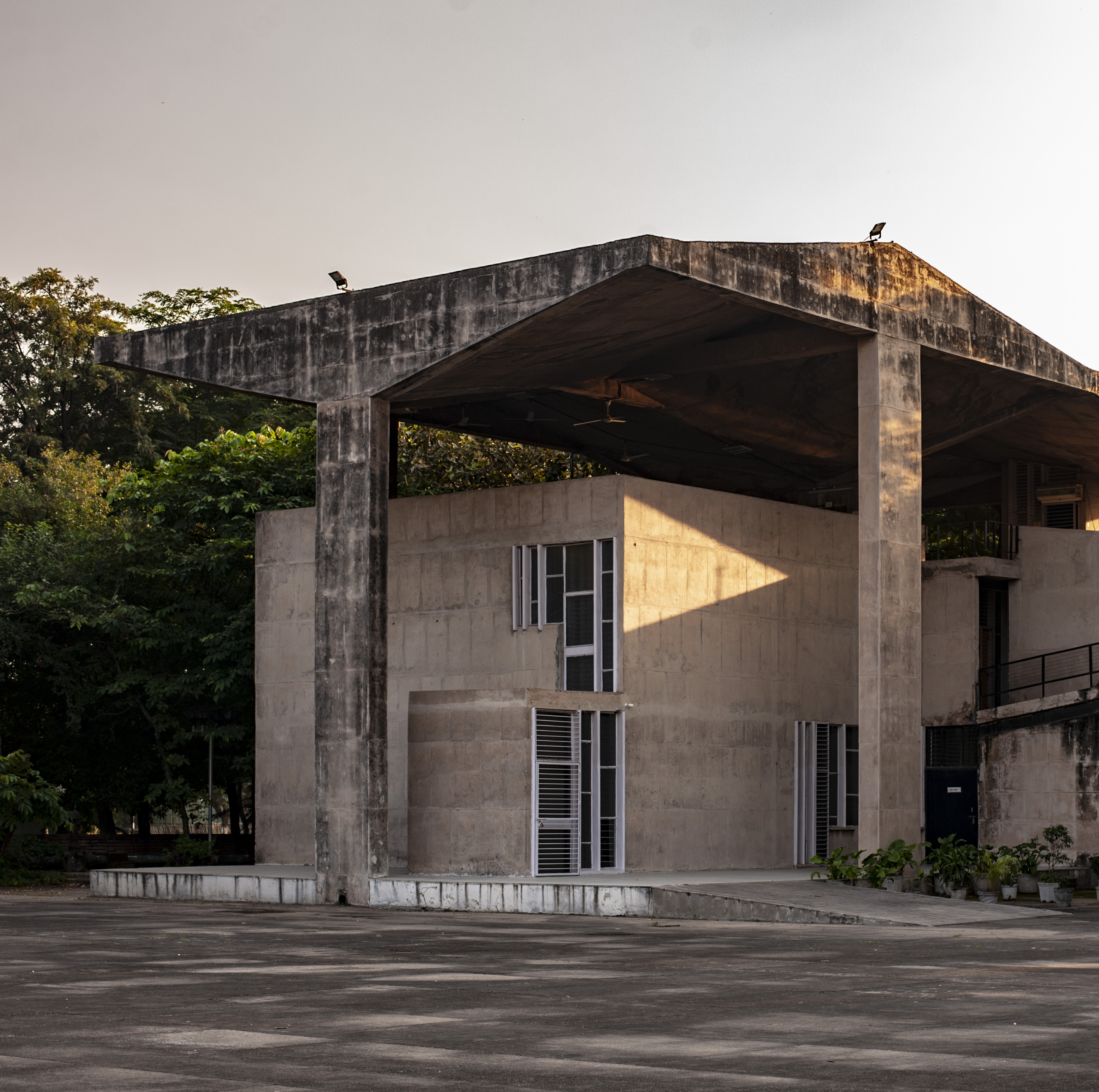 Chandigarh Architecture Museum, Chandigarh